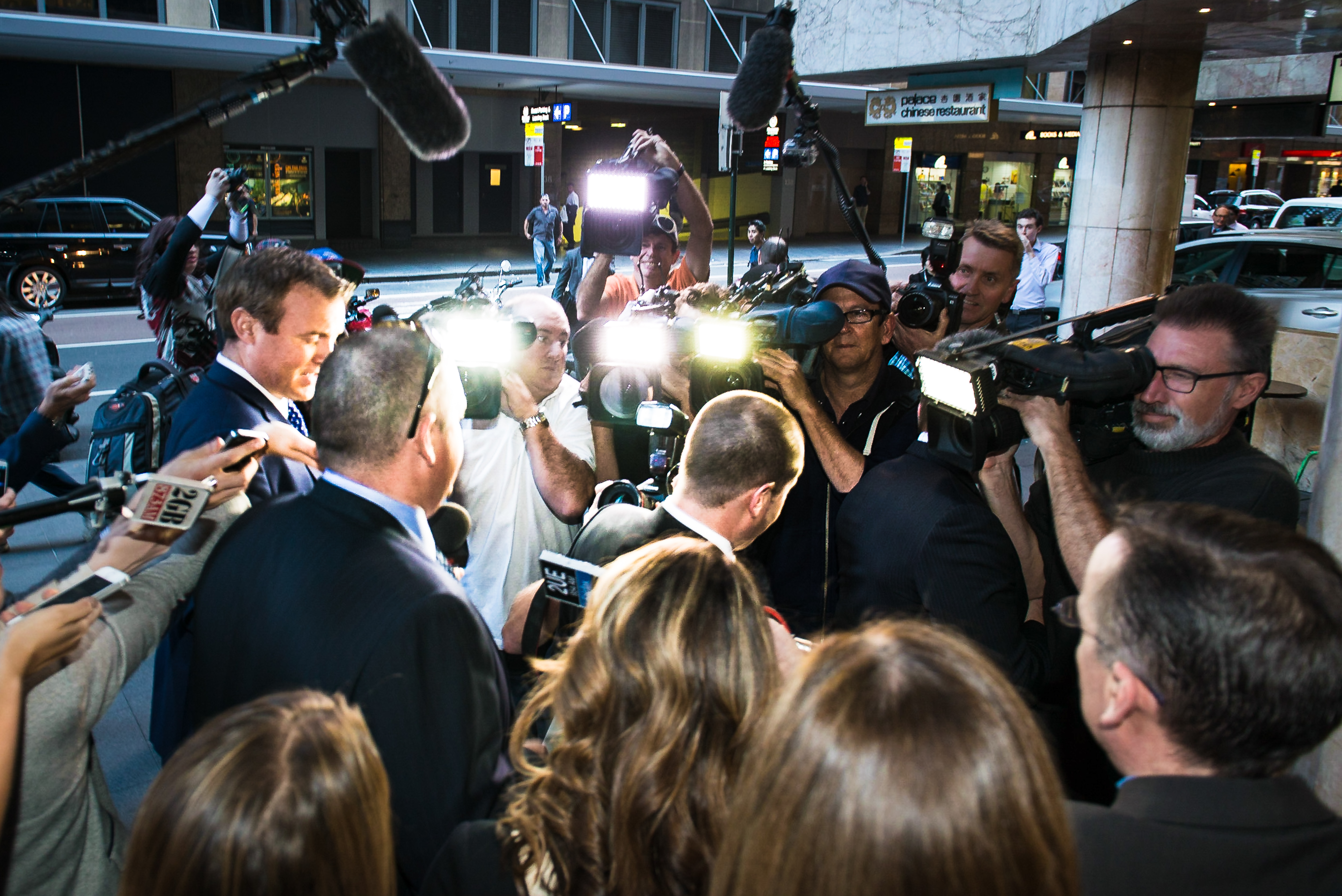 Nathan Tinkler faces the media following his appearance at the ICAC Inquiry